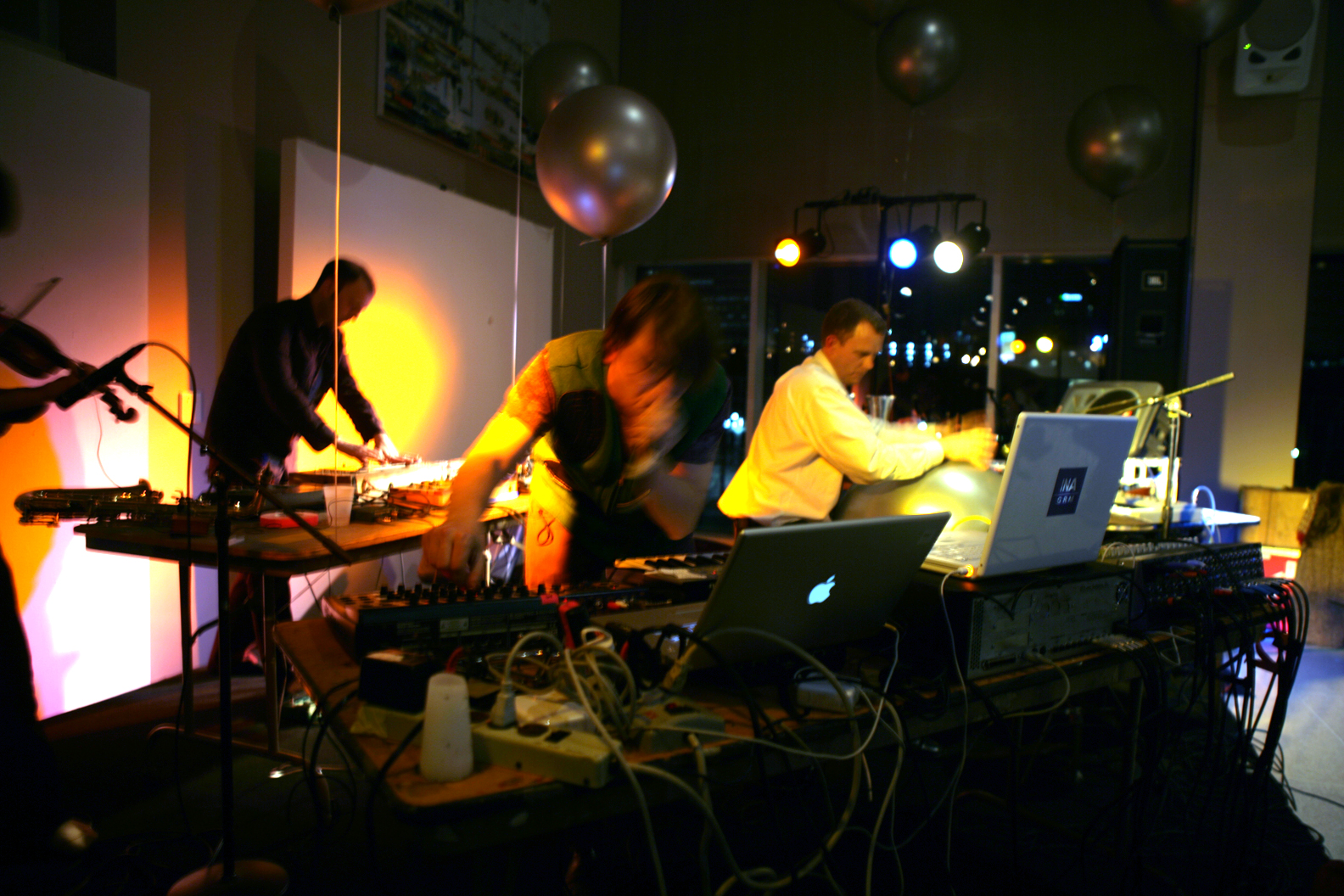 Big Ears Festival Big Ears 09 kicks off at the Knoxville Museum of Art, Alive After Five - Feb. 6, 2009 with Matmos